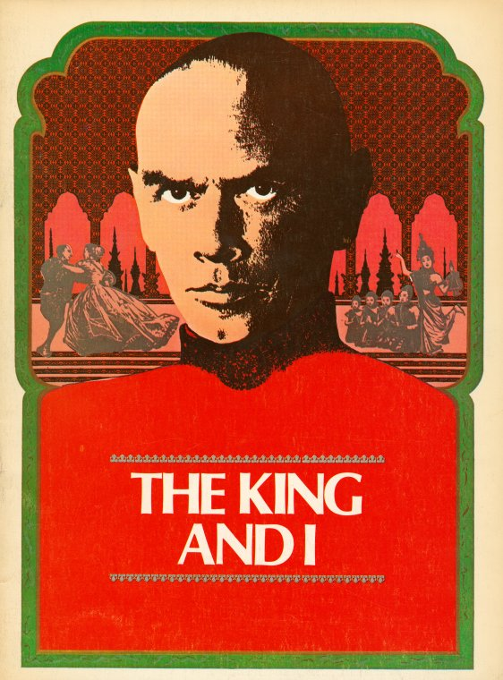 Yul Brynner as the King, from a 1977 souvenir program for The King and I. Lacks any copyright notice, so it is no longer under copyright. Image can be found here